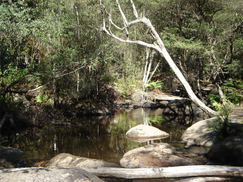 A view of the Murrindini river near one of the camping spots